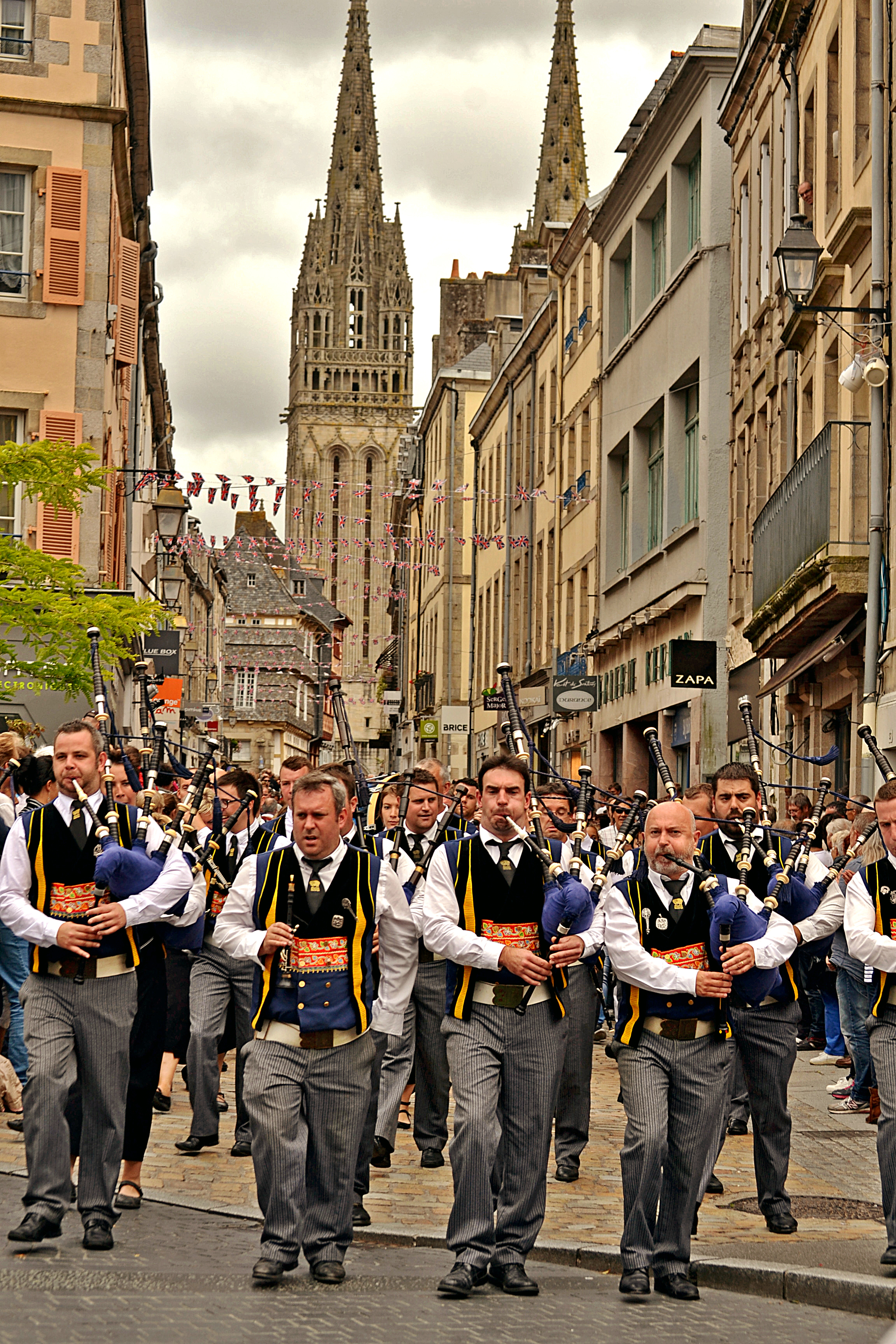 Parade of Breton folk groups during the 2015 Cornouaille festival in the streets of Quimper.